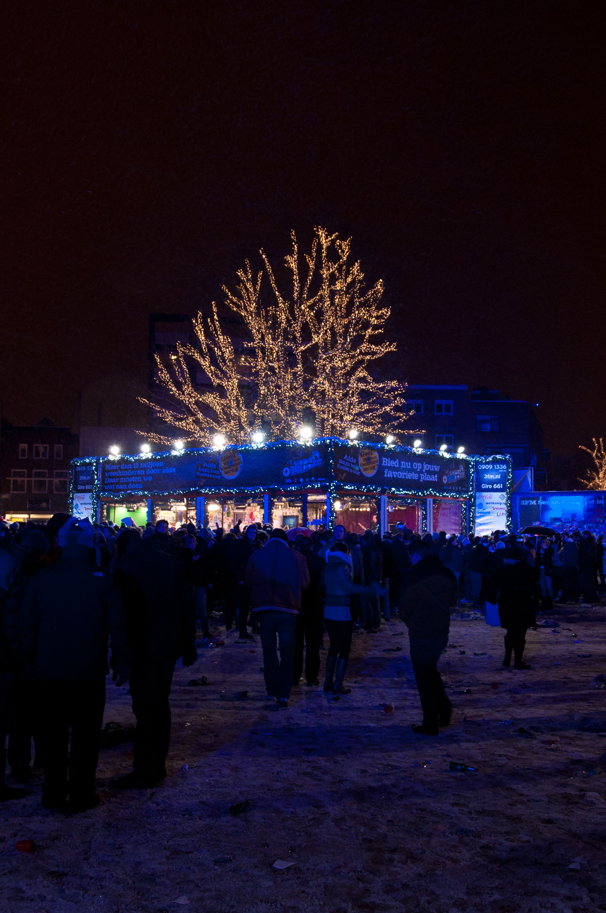 Right smack in the middle of the Markt in Eindhoven.